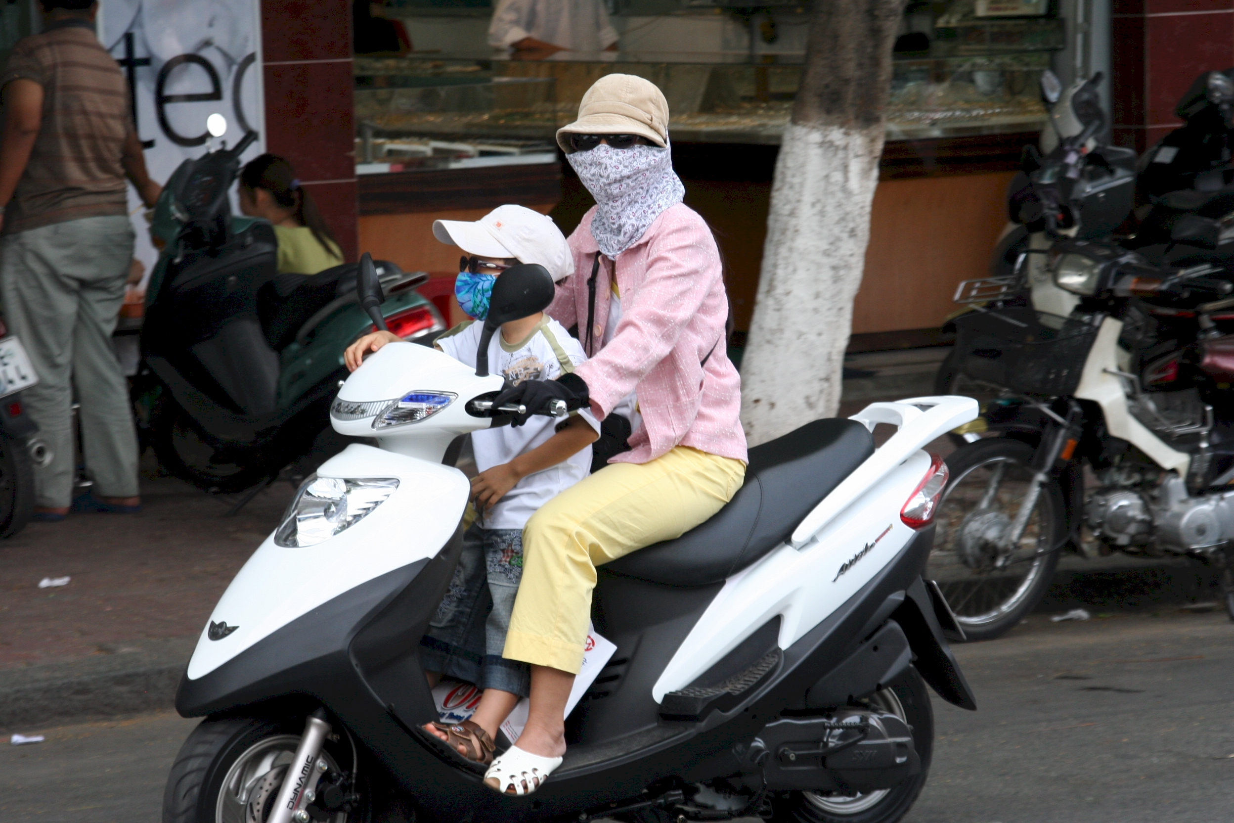 A mother and child share a ride on a motorbike in Ho Chi Minh City, Vietnam. The motorbike is an SYM "Attila" but I do not know which model (maybe the Attila Victoria). [1] Taken Jun 2005. Photographer Roderick Divilbiss